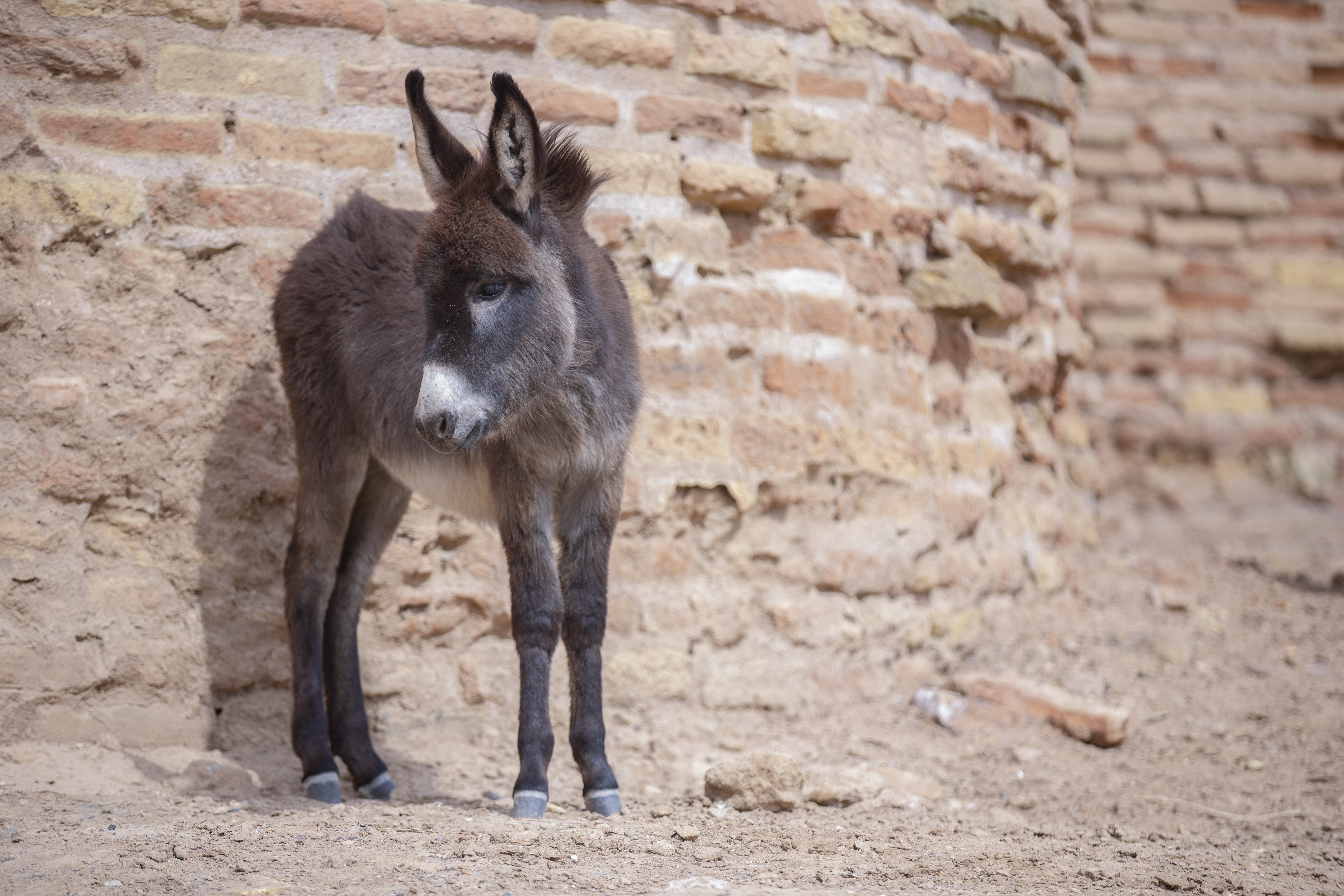 The donkey or ass is a domesticated member of the horse family, Equidae.